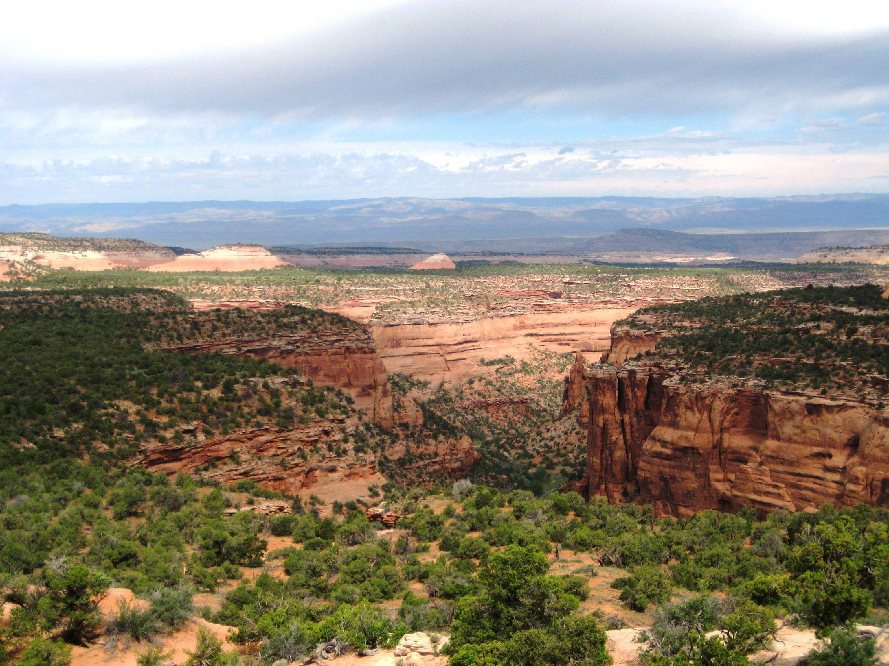 Knowles Canyon by Matt McGrath Black Ridge Canyons Wilderness, MCNCA, Colorado